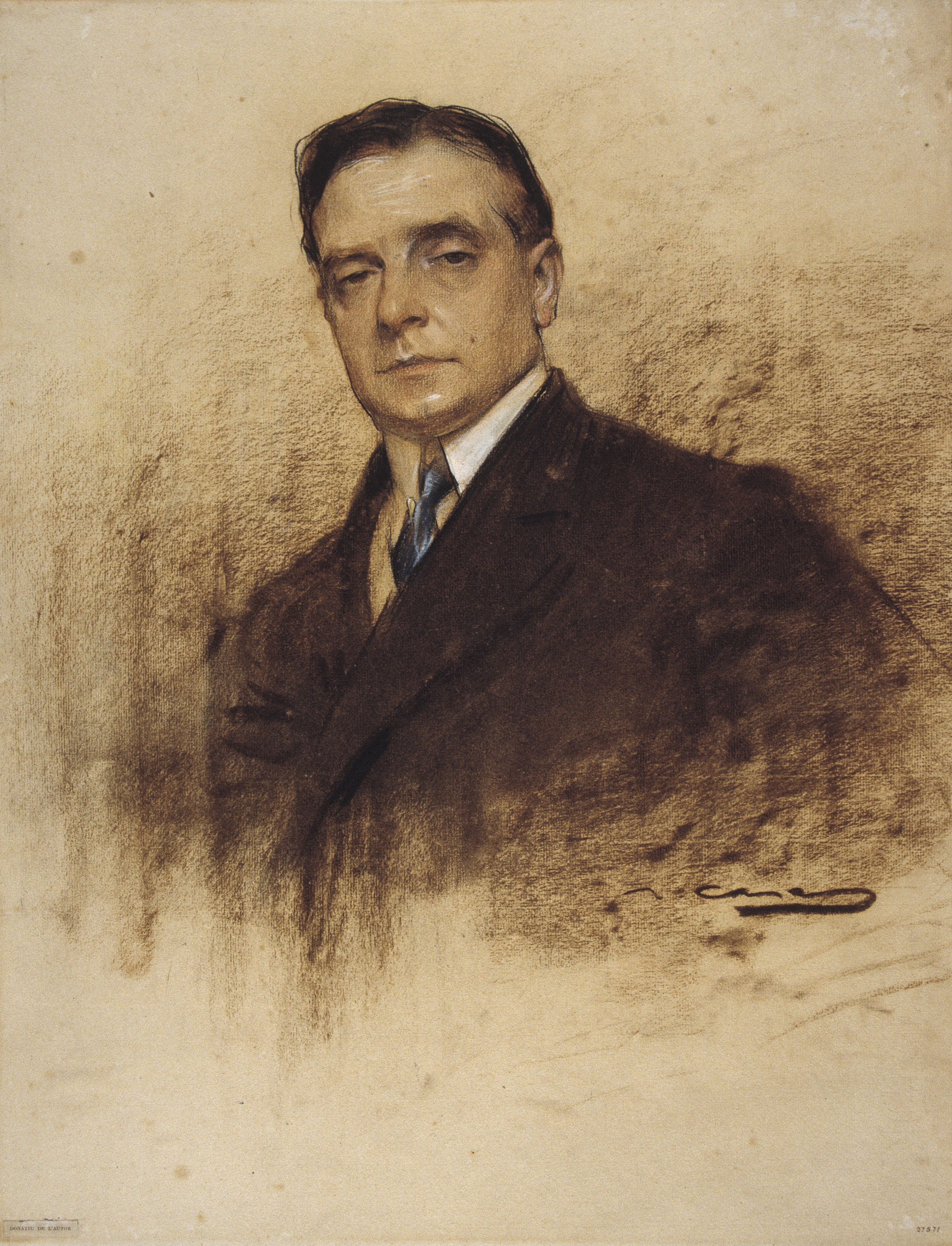 Portrait by Ramon Casas conserved at MNAC in Barcelona.